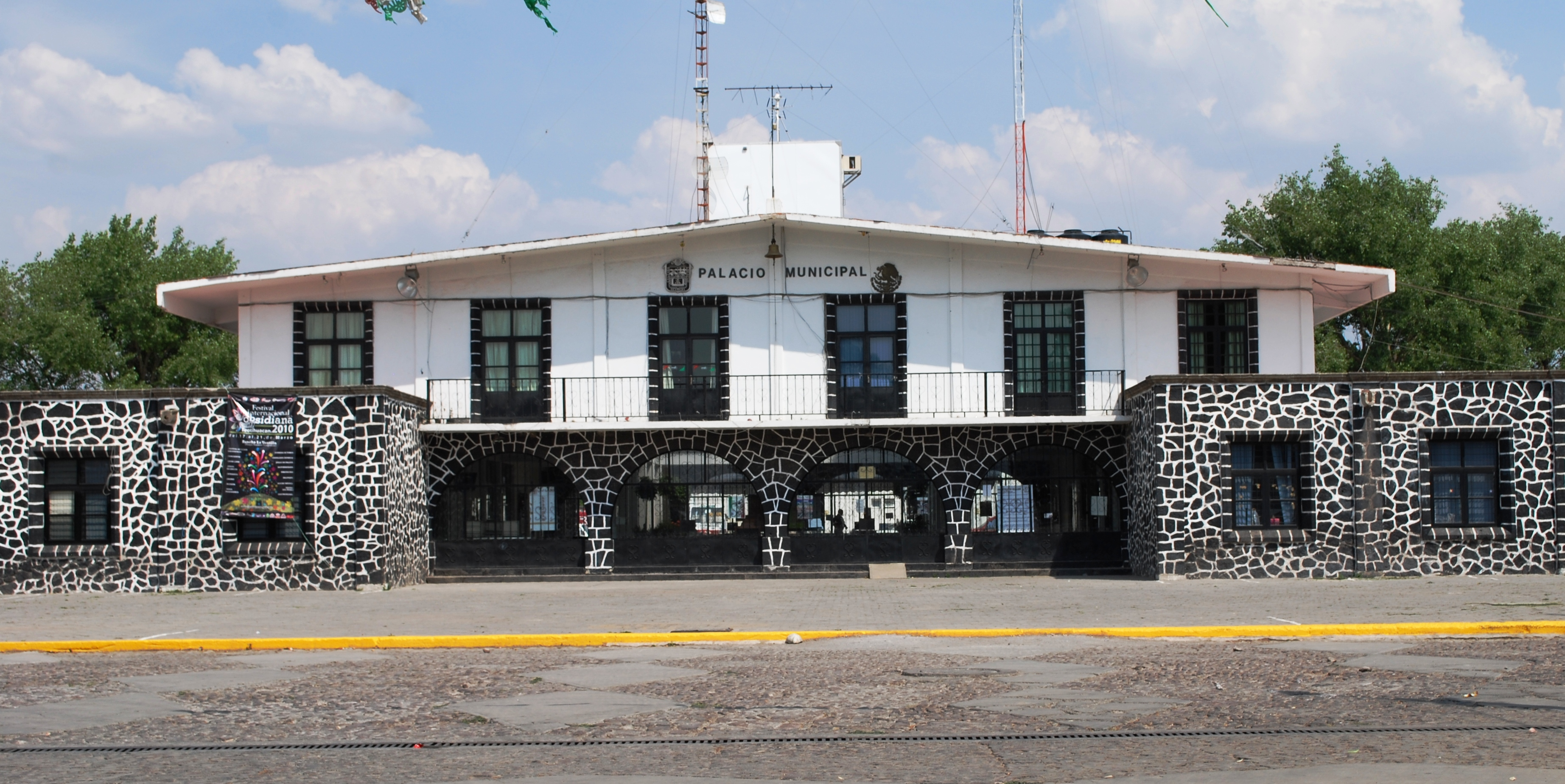 Municipal palace of Acolman, Mexico State, Mexico